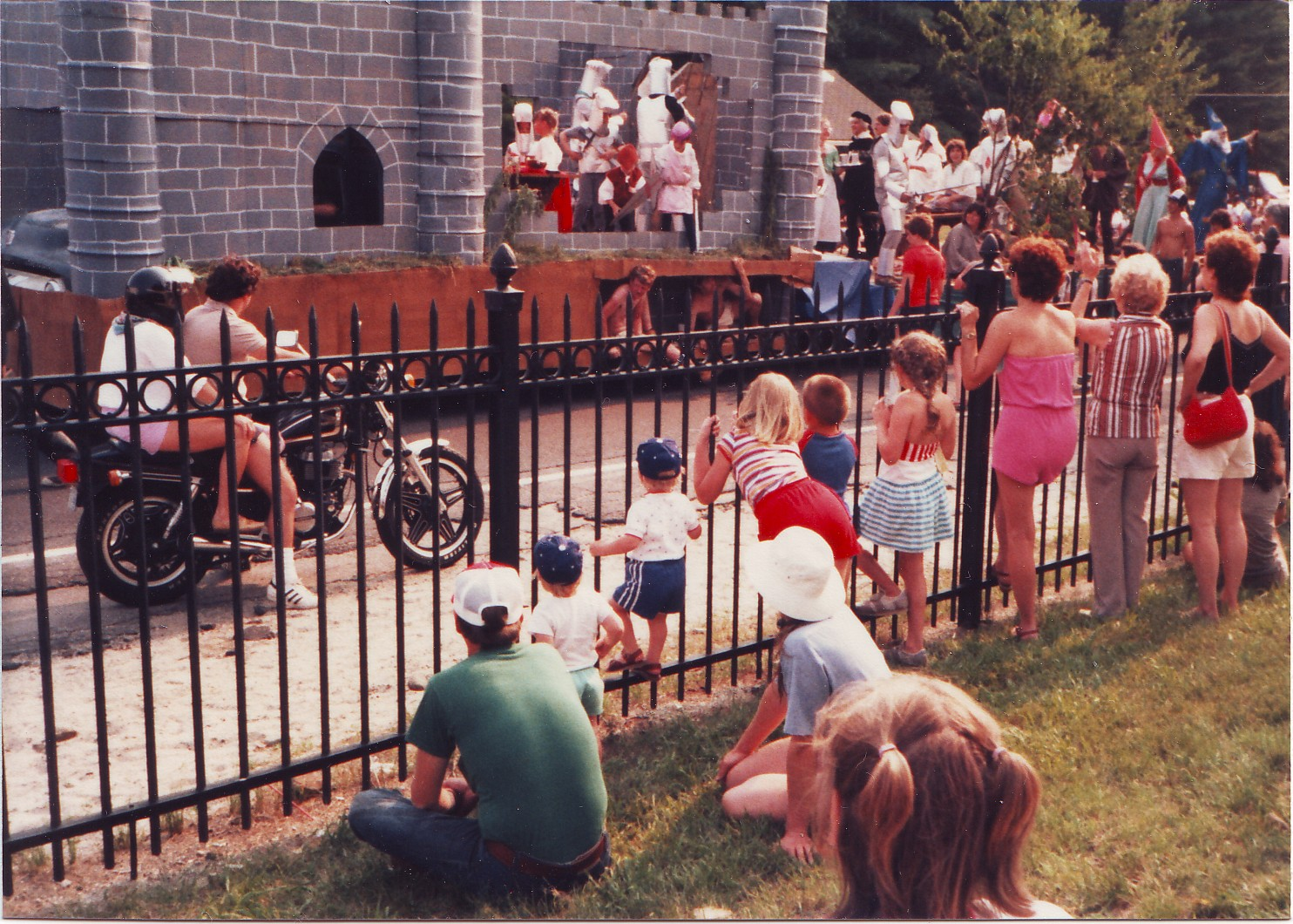 My 1984 photo of the Ancient and Horribles Parade in Rhode Island.